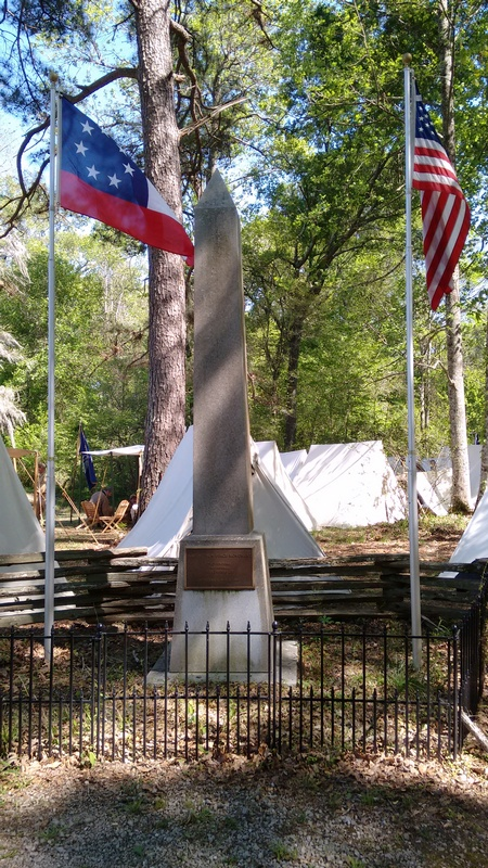 Grave of two soldiers at Port Hudson State Historic Site, Louisiana. Plaque reads: Port Hudson Peace Monument Two Soldiers One Federal One Confederate Re-Interred May 27, 1990